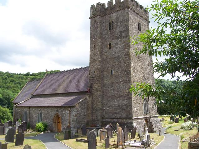 St Tysul Church, Llandysul. The church, in its present form is described as being of early English style. A notable feature of the church is its square tower with local stones being used. The church tower was built in four stages over the next two centuries.